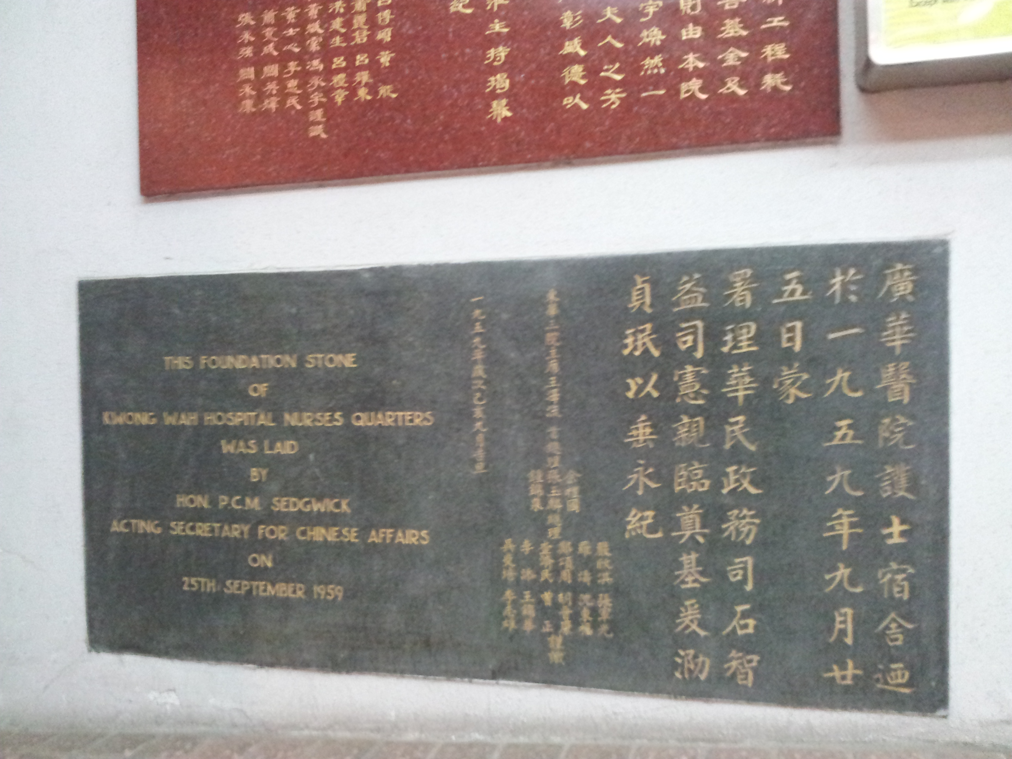 The Foundation Stone of Kwong Wah Hospital Nurses Quarters in Kowloon, Hong Kong, laid by the Hon. P. C. M. Sedgwick, Acting Secretary for Chinese Affairs, on 25 September 1959. 中文（香港）: 署理華民政務司石智益在1959年9月25日，為香港九龍的廣華醫院護士宿舍主持奠基儀式時所置的奠基石